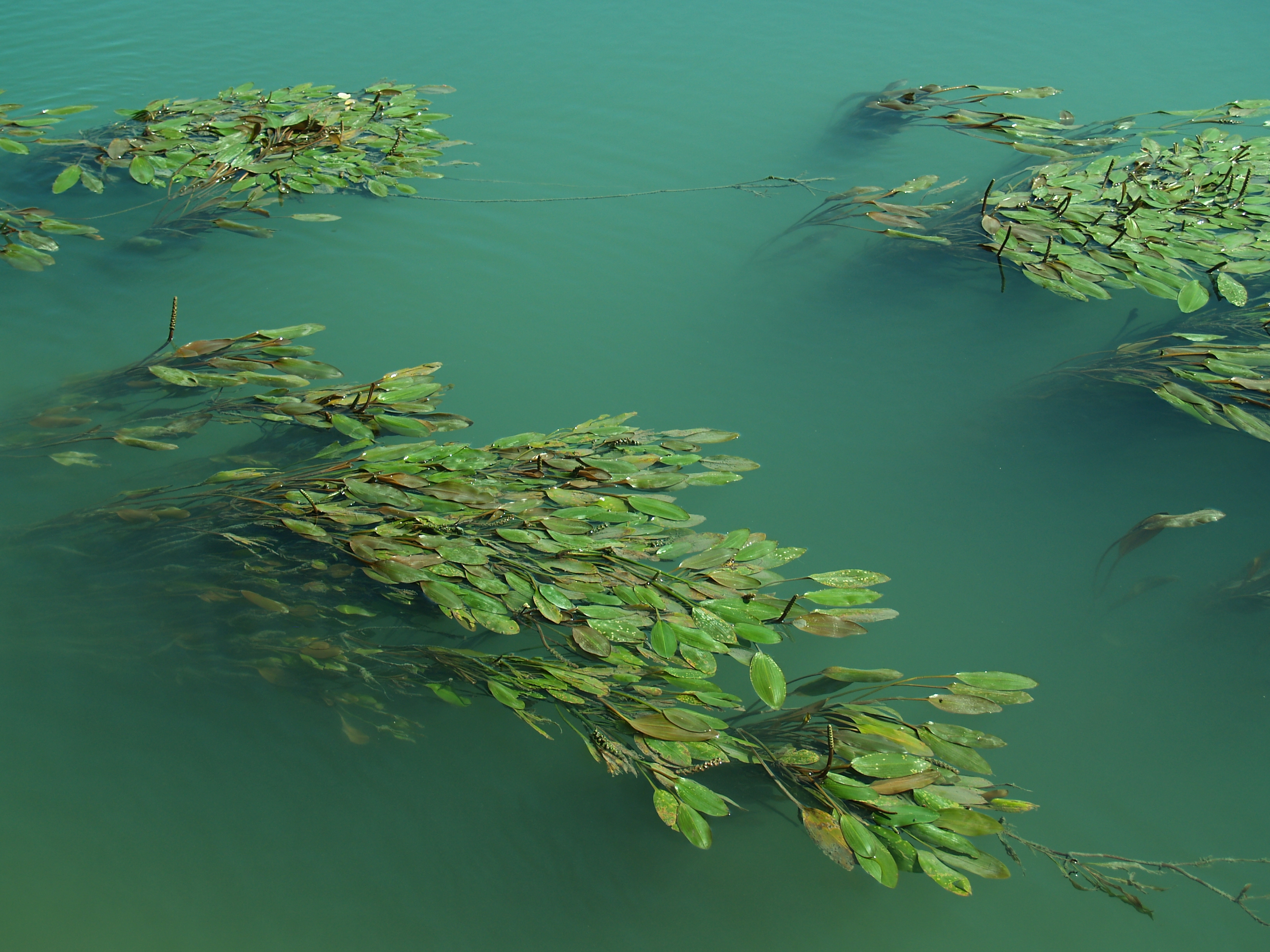 Vegetation in the river Tagus near Noblejas